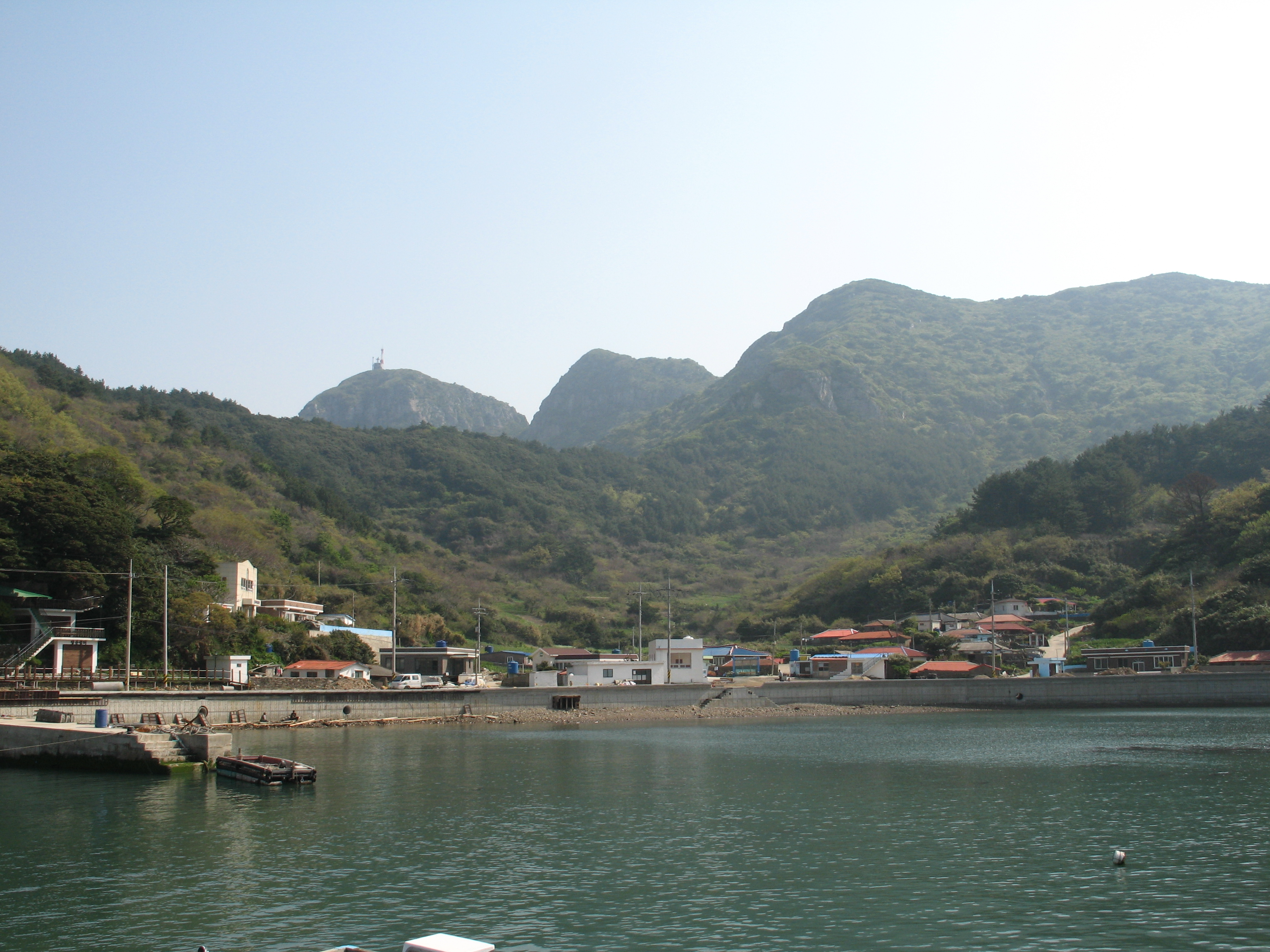 Heuksando Island, South Korea